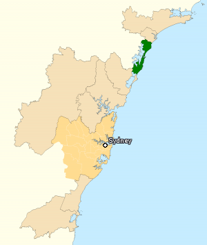 Incorporates or developed using Administrative Boundaries ©PSMA Australia Limited licensed by the Commonwealth of Australia under Creative Commons Attribution 4.0 International licence (CC BY 4.0). Derived from State and Territory Boundaries from the Australian Bureau of Statistics under Creative Commons Attribution 2.5 Australia license (CC BY 2.5 AU)